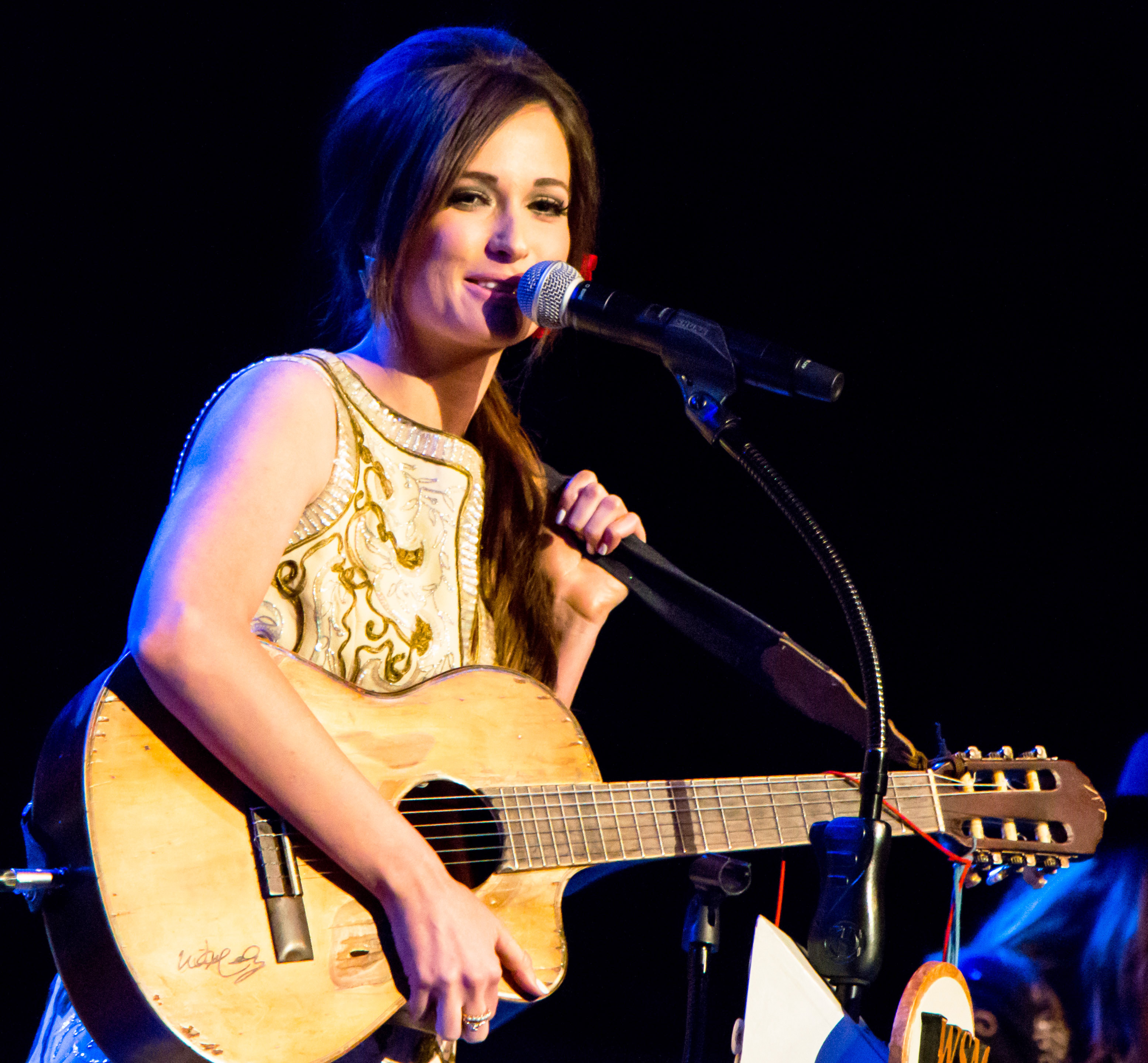 Kacey Musgraves performing at Ryman Auditorium on the Grand Ole Opry on December 13th, 2014